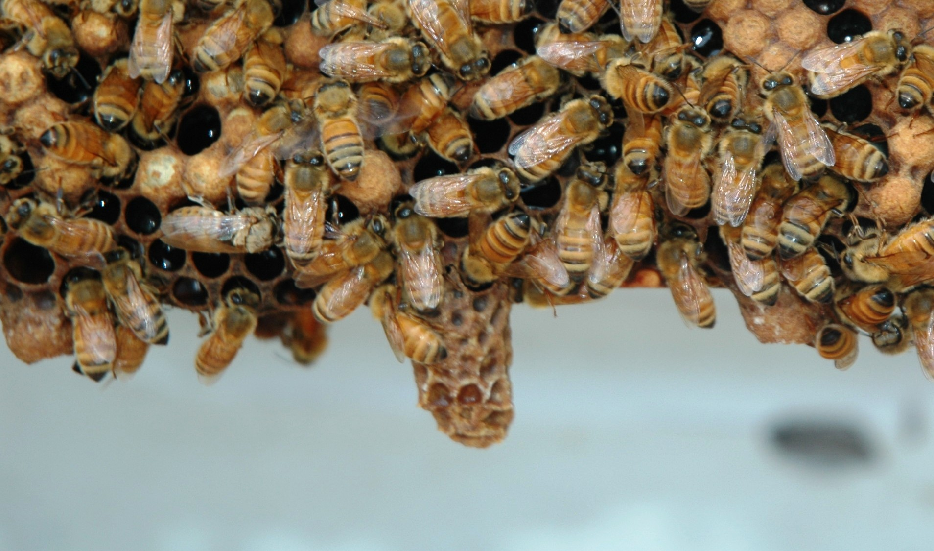 Honey Bee Queen Cells: Center one is mature; small developing cells are visible left and right